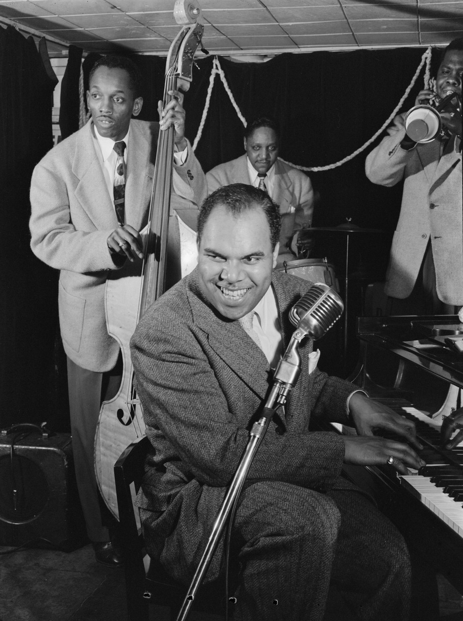 John Levy (left) and Phil Moore (foreground), New York, N.Y., between 1946 and 1948 (Photograph by William P. Gottlieb)